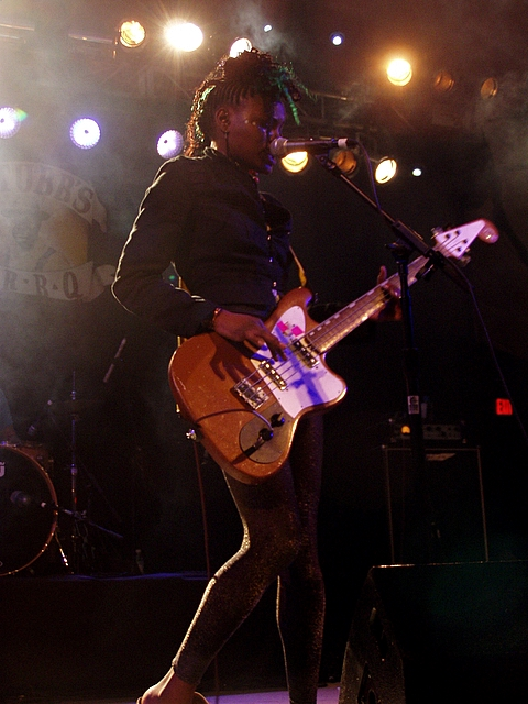 Shingai Shoniwa bassist of the rock band Noisettes performing Stubbs BBQ 2007.